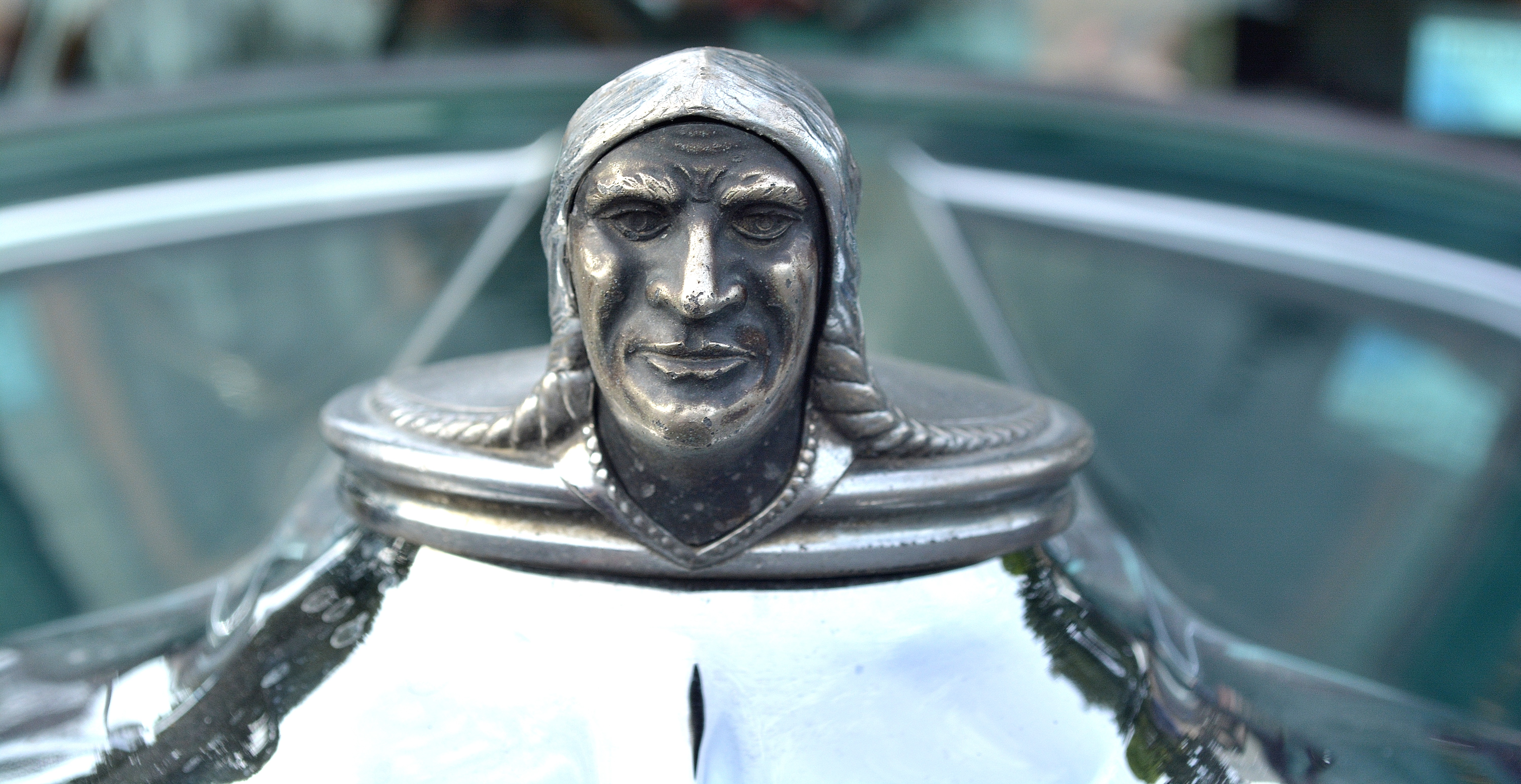 Papakura Vintage Car Rally,South Auckland.New Zealand